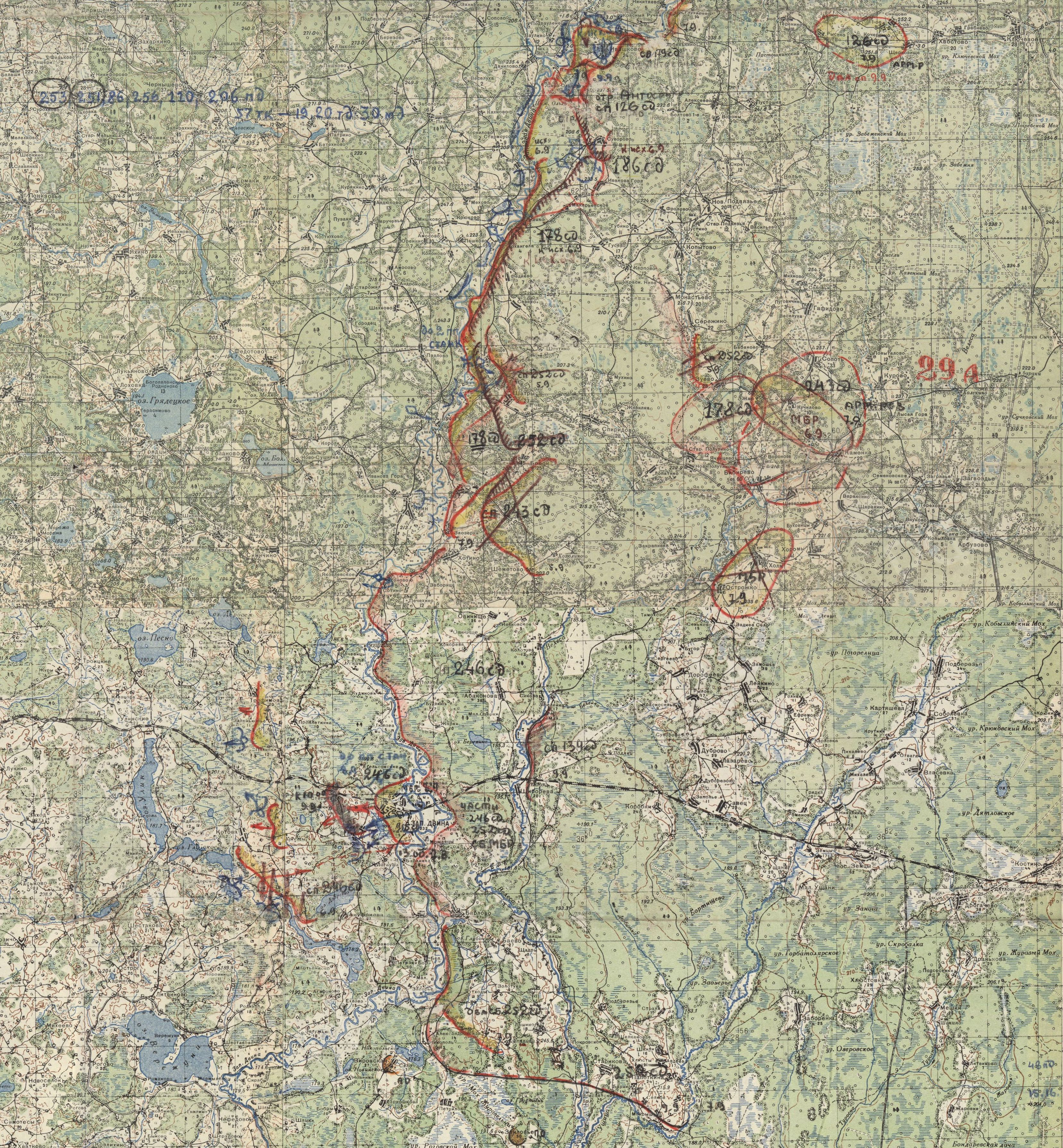 29th Army situation 1:100,000 map from 7 August to 9 September 1941